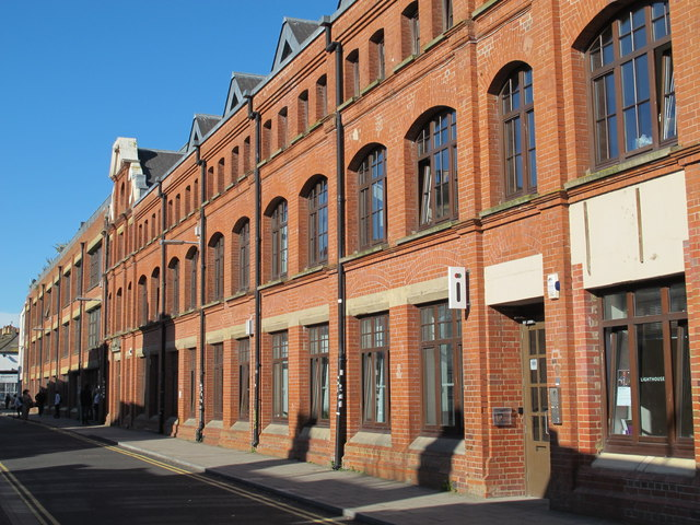 Lighthouse venue in Brighton where Media Molecule has a Satellite studio among others.